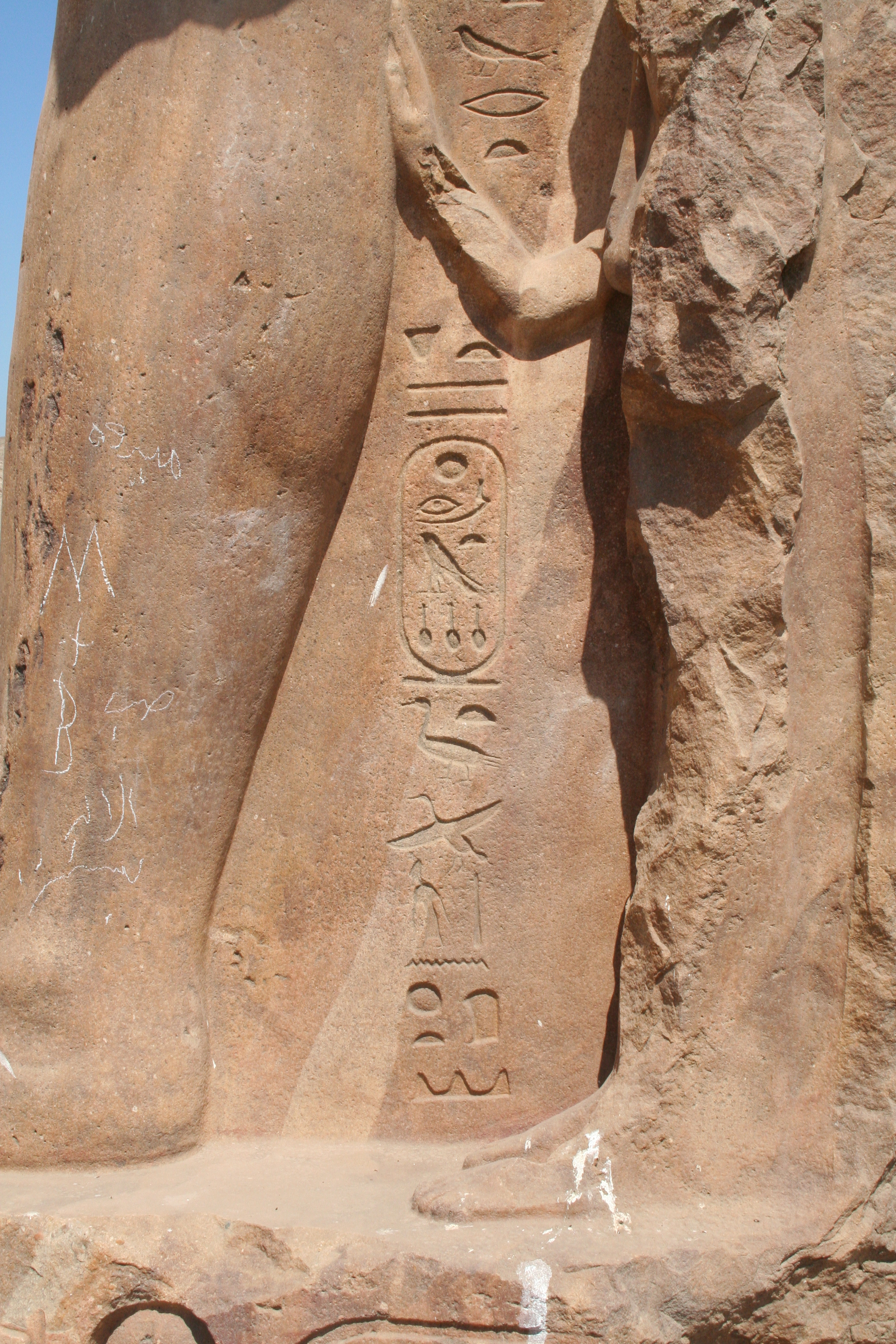 Tanis